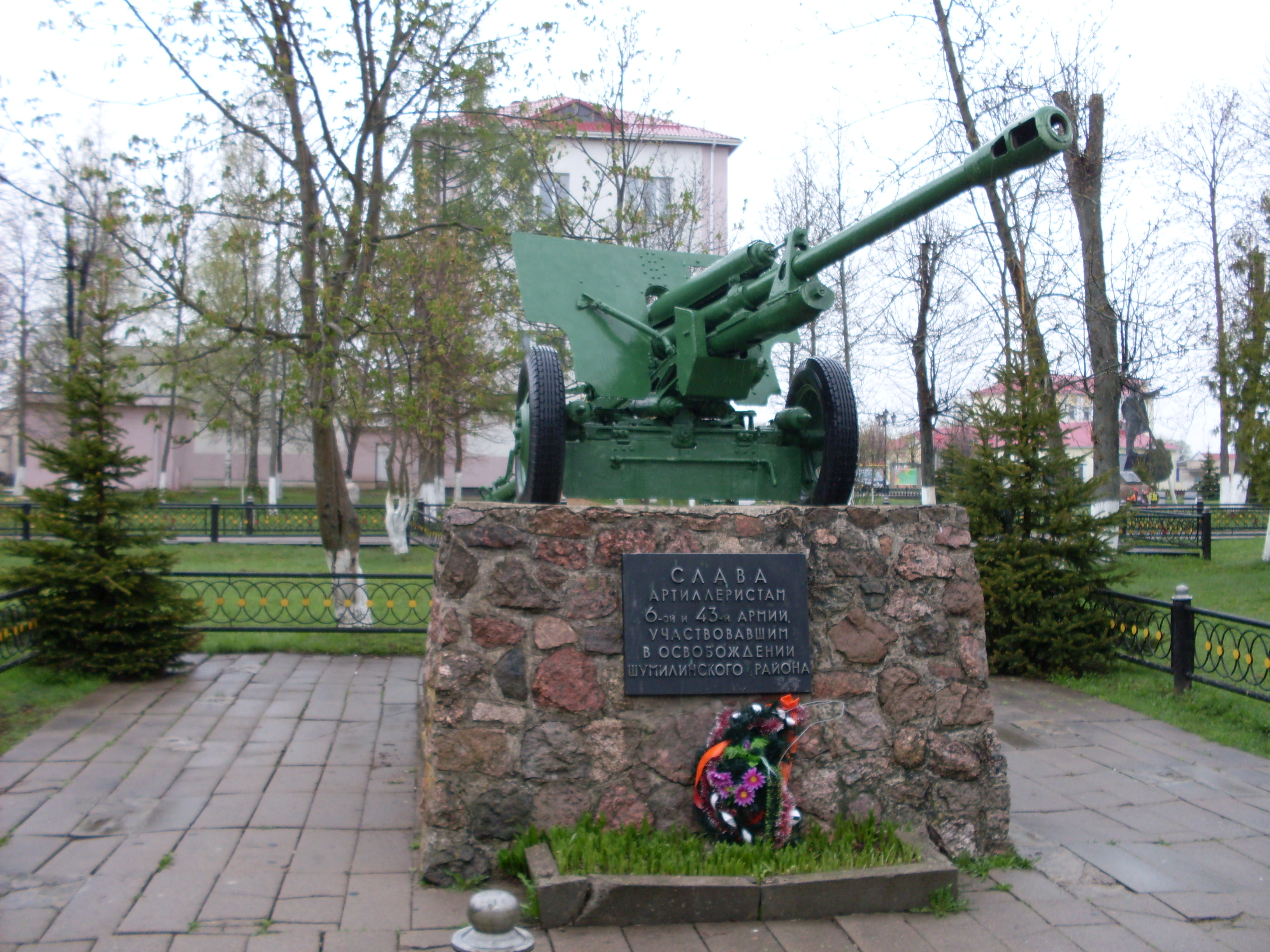 Shumilino (Belarus). Monument to Soldiers-gunners